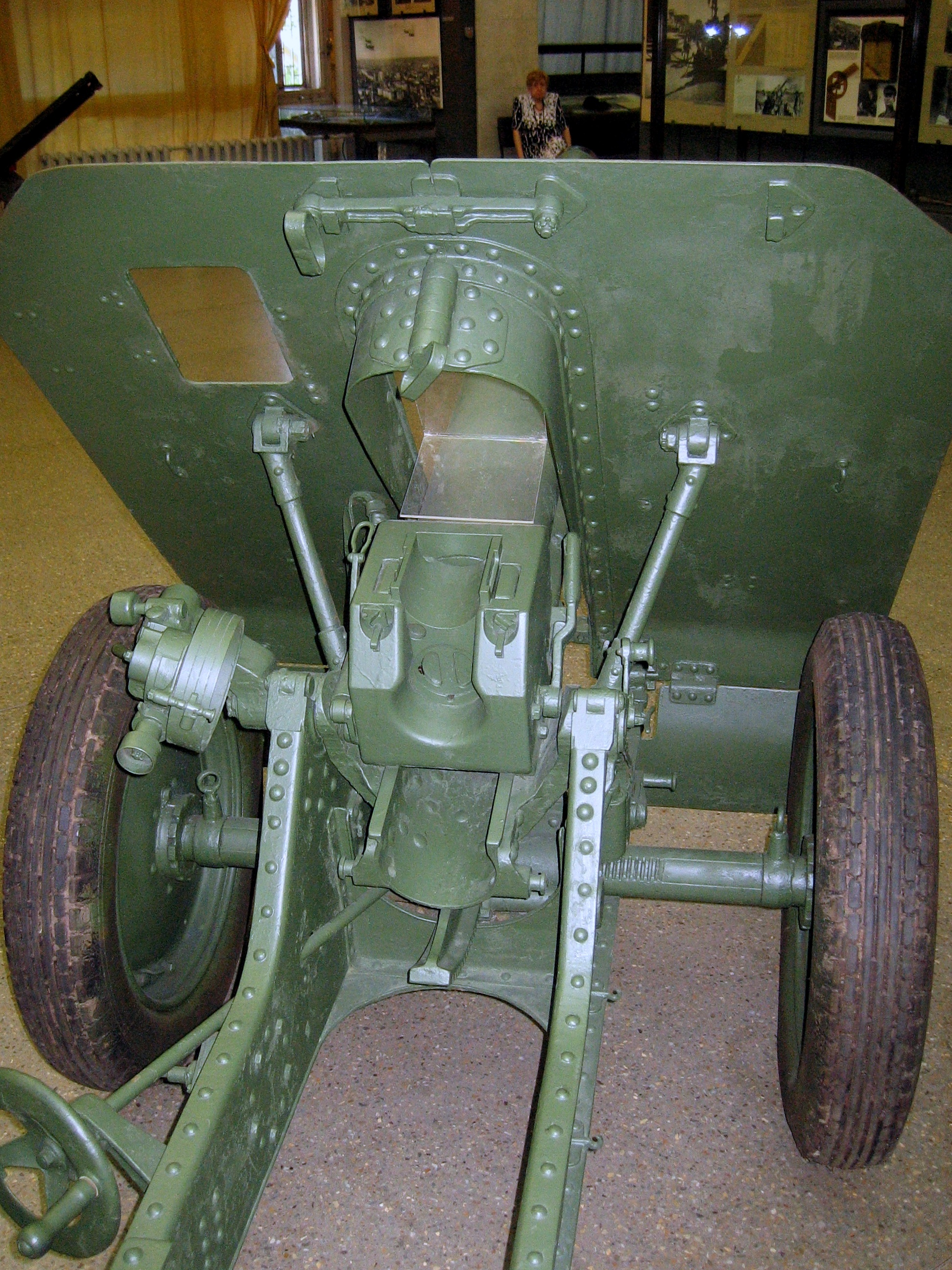 Soviet 76mm mountain gun M1938, displayed in Moscow Military Museum. Photo taken on 19 July, 2007. Source: Photo by me, User:Сайга20K.